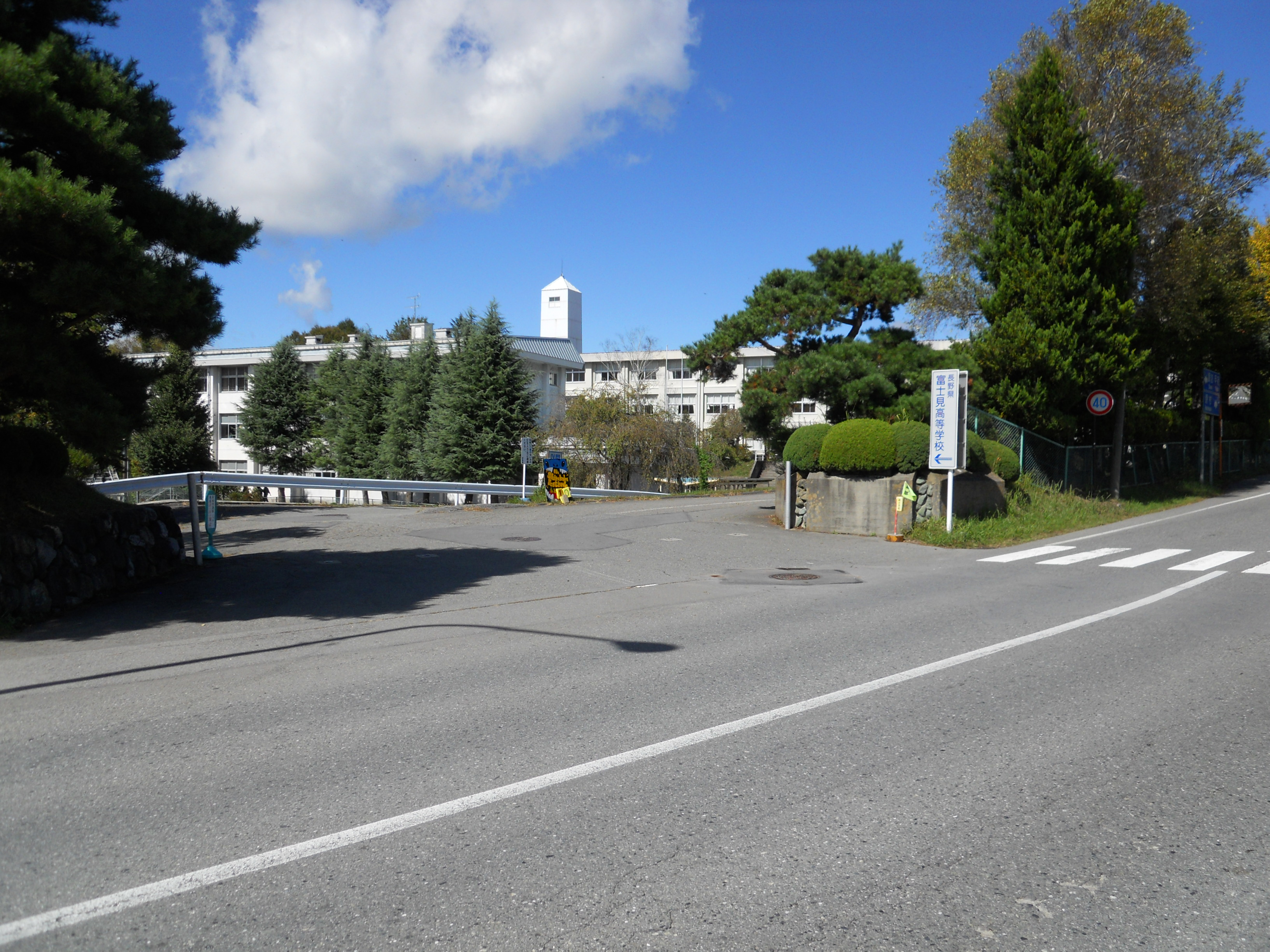 Nagano Prefectural Fujimi High School